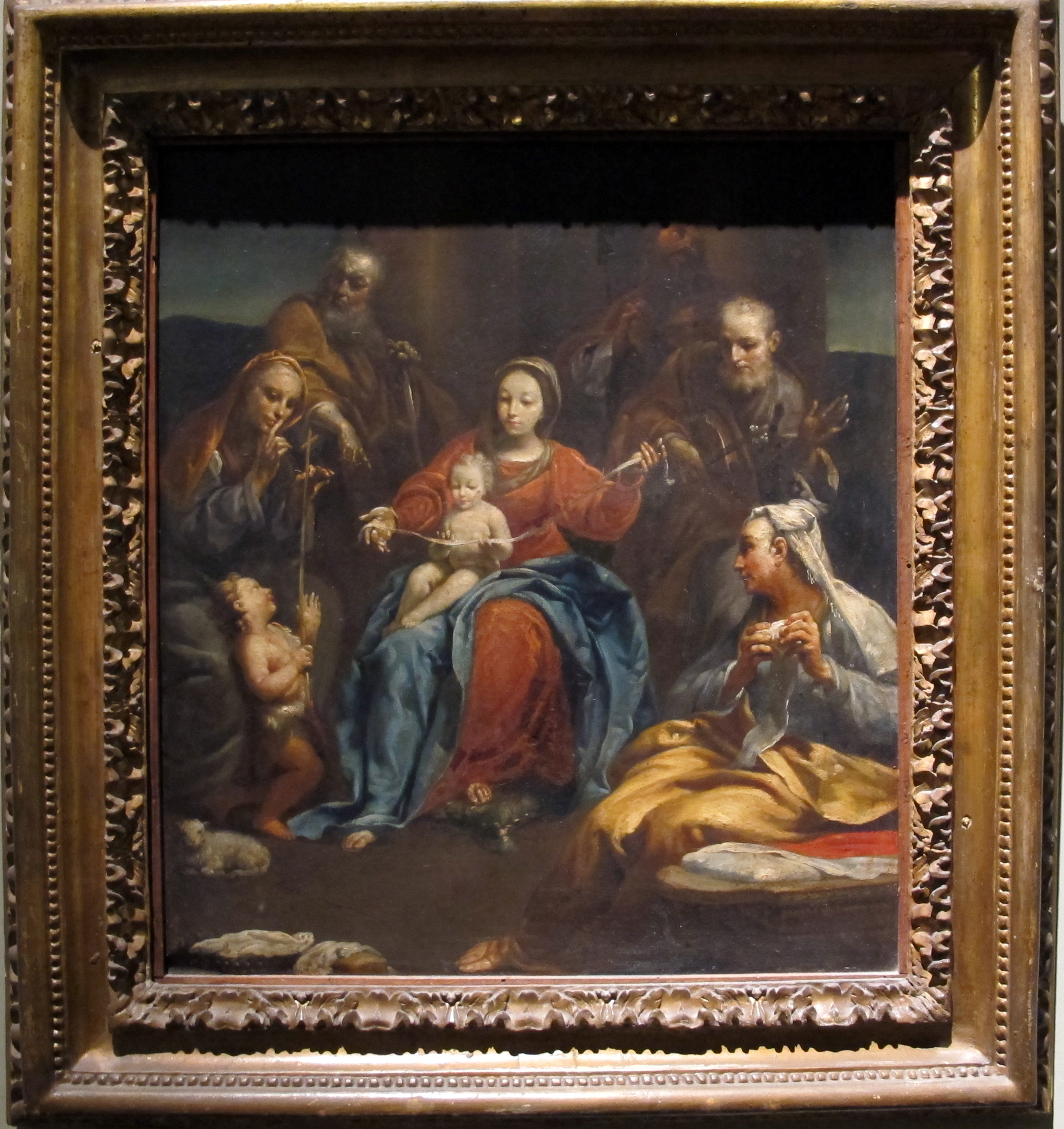 The Holy Family and Saints